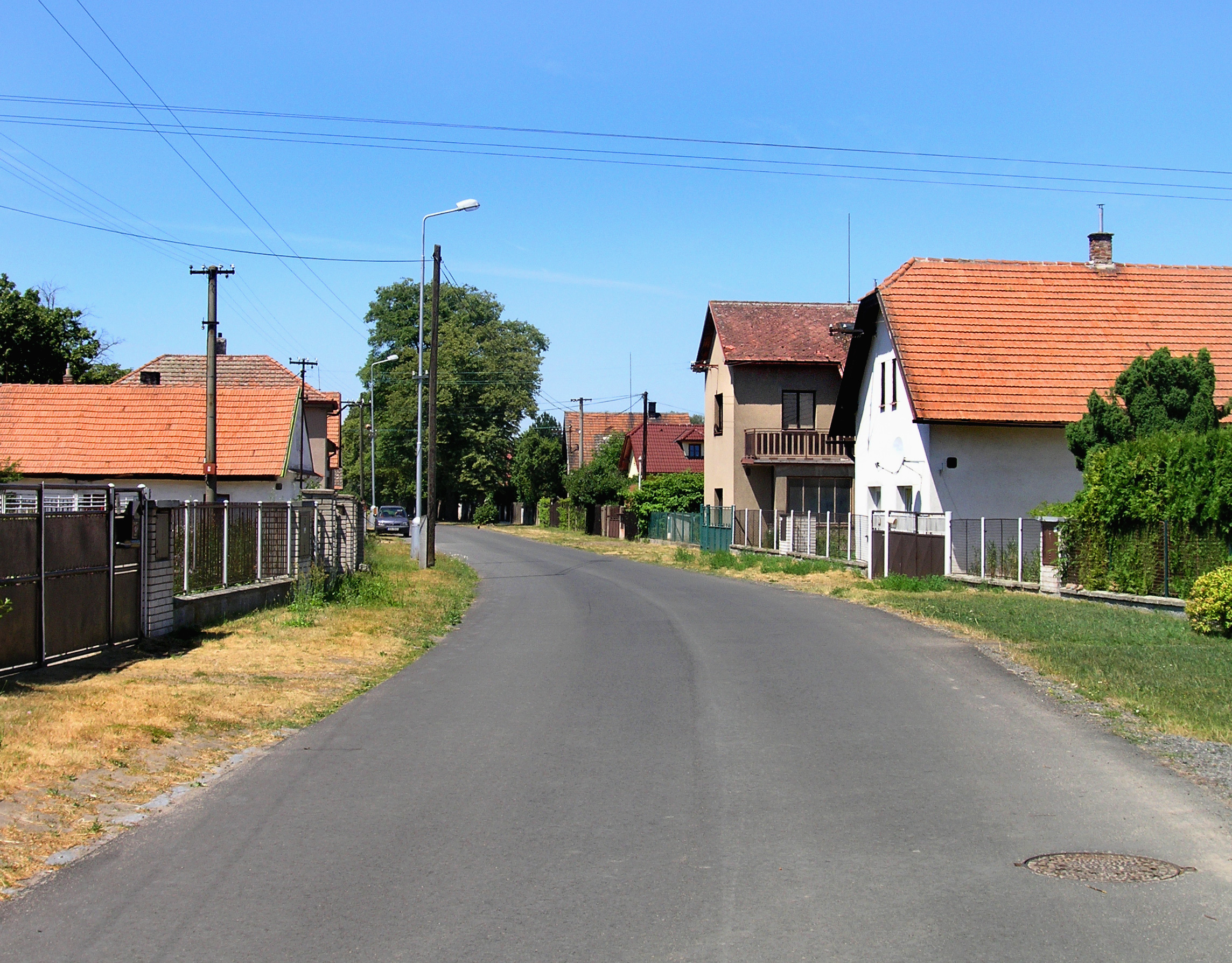 Nerad, part of Živanice village, Czech Republic